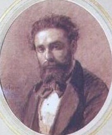 Jean André Rixens